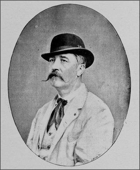 Mari ten Kate